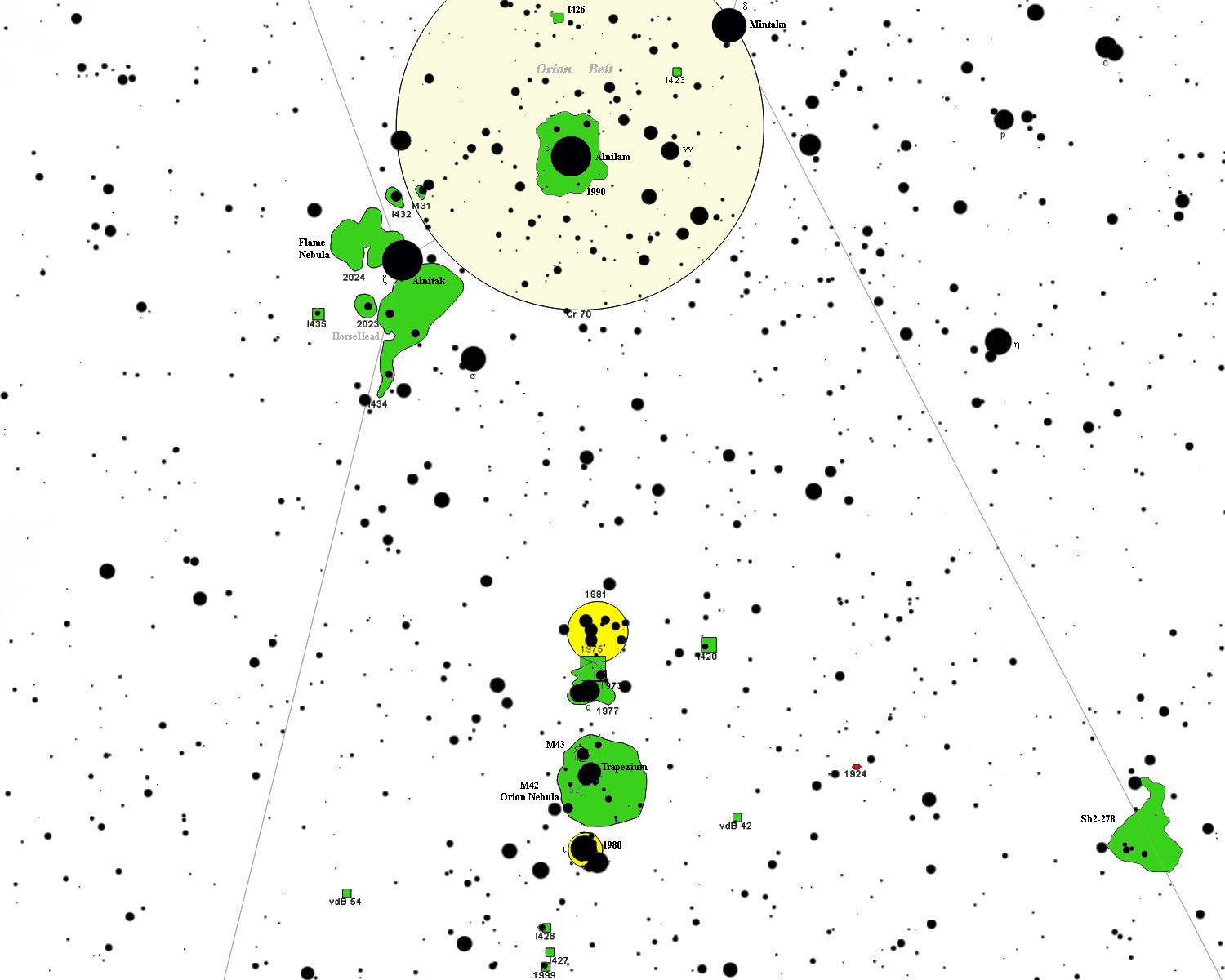 Orion constellation map, detail of Orion Sword/Belt, with DSOs